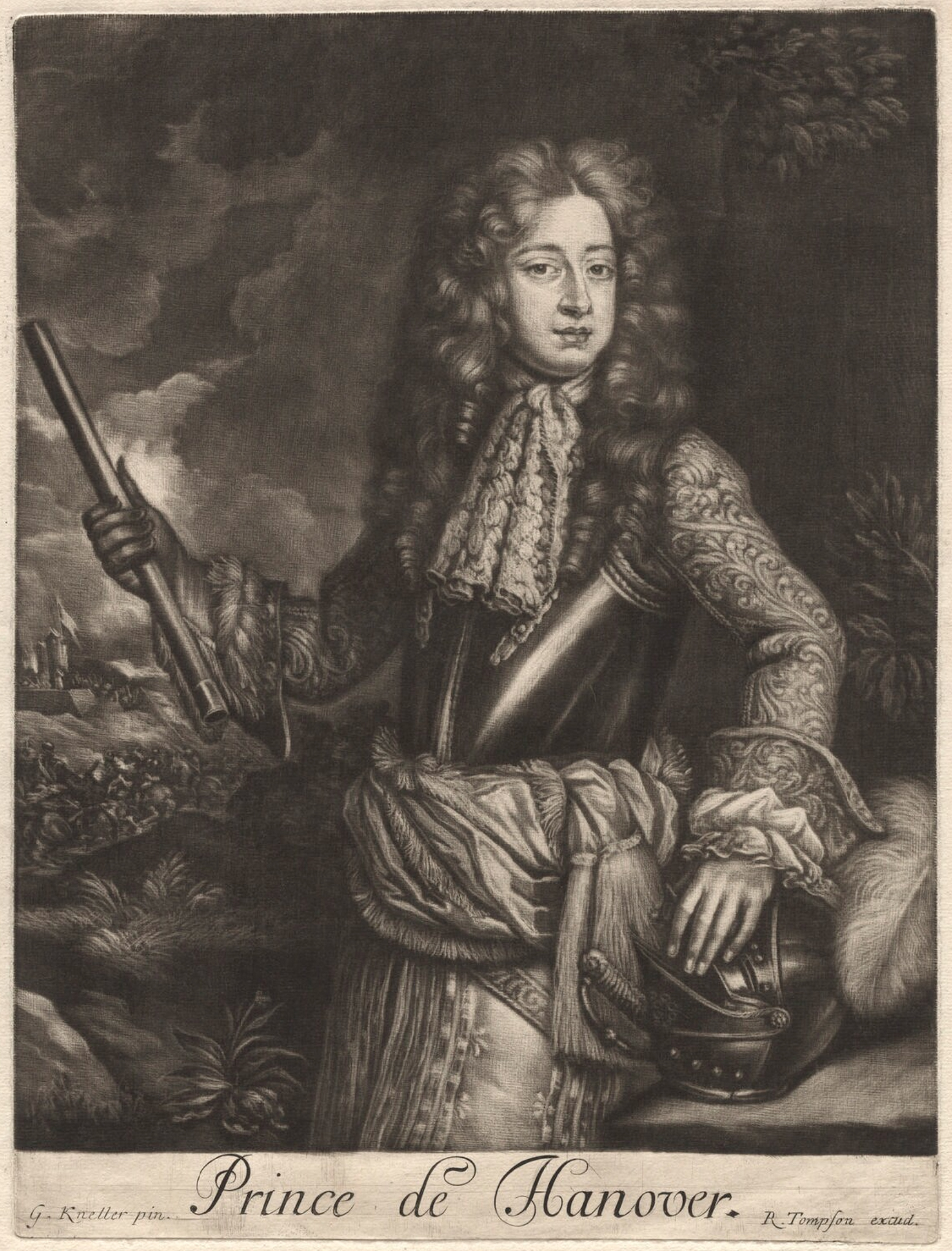 George I of Great Britain (1660-1727, r. 1714-1727) in 1680, while he was prince of Hanover